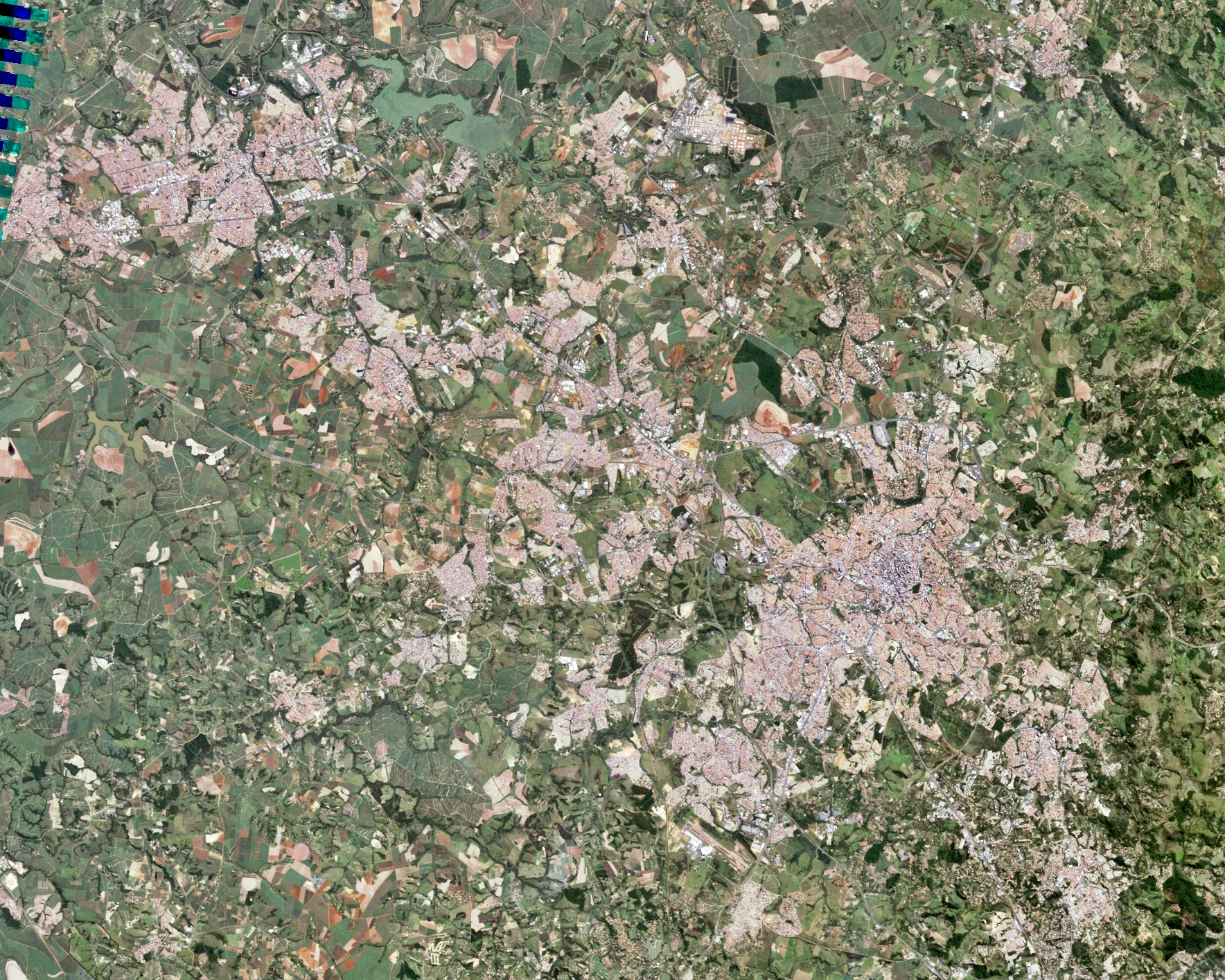 Metropolitan area Campinas Landsat - Brasil